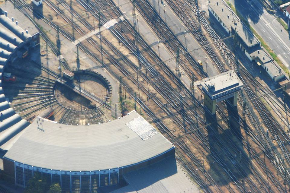 Control Tower of Székesfehérvár Railway Station from air, Hungary